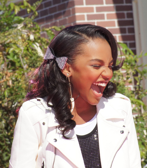 China Anne Mcclain performing at Disney Parks Christmas Day Parade 2011.